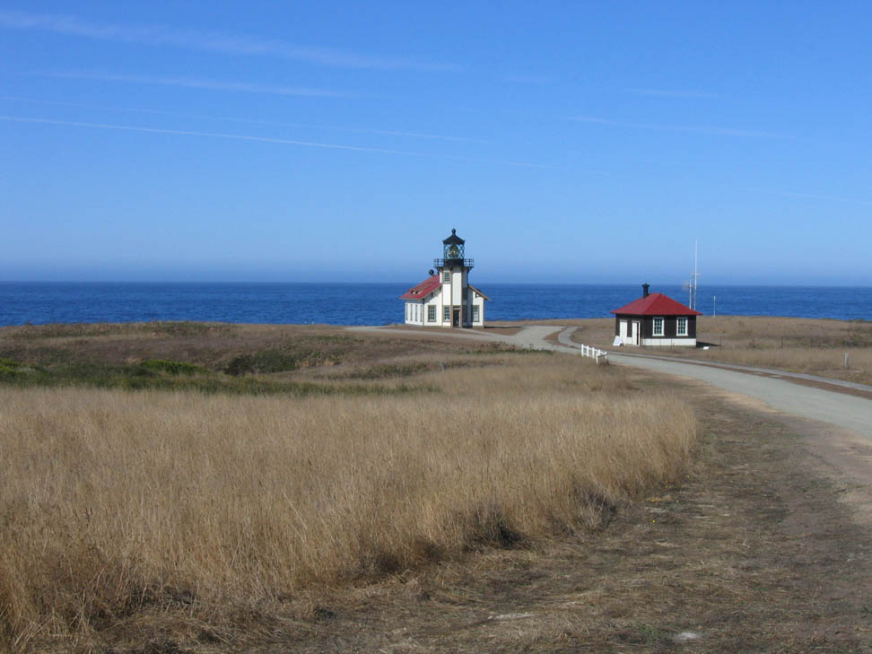 Point Cabrillo Light, located south of Caspar, California, USA.